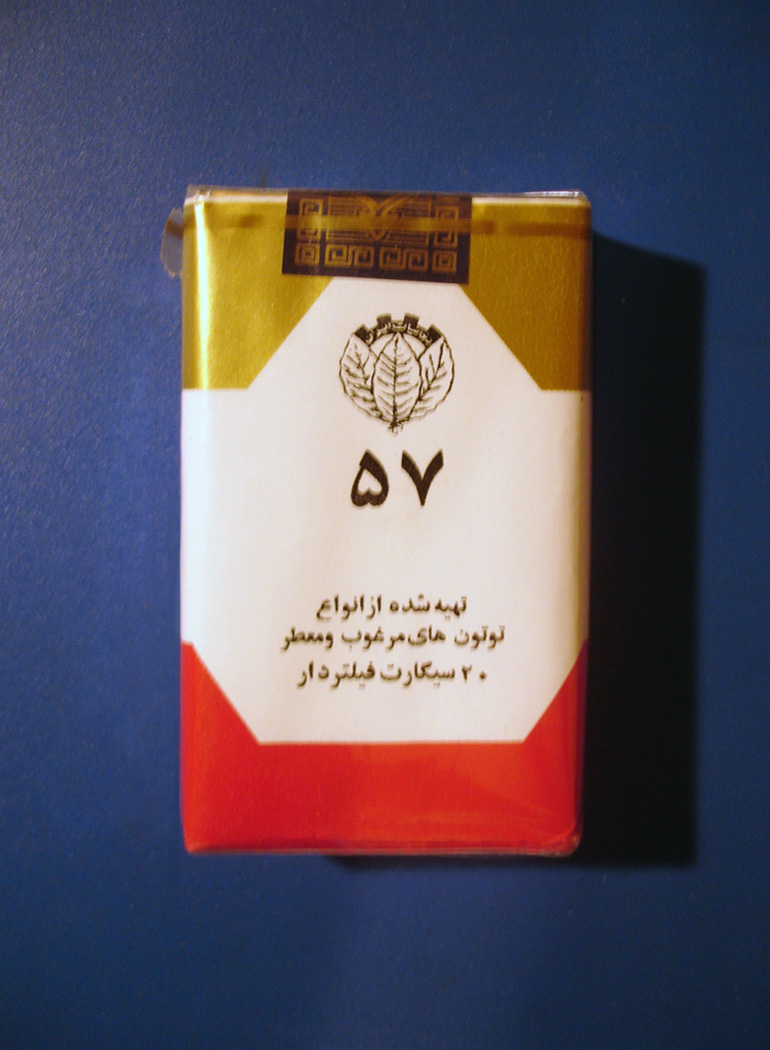 57 cigarette box (Iran), front)